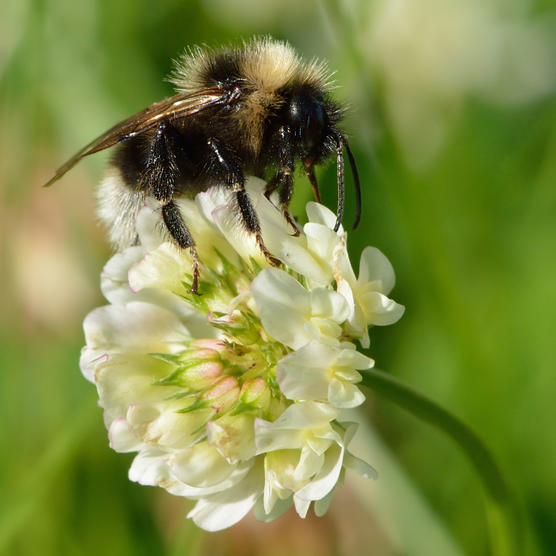 Barbut's cuckoo-bee on the white clover inflorescence (Trifolium repens). Keila, Northwestern Estonia.